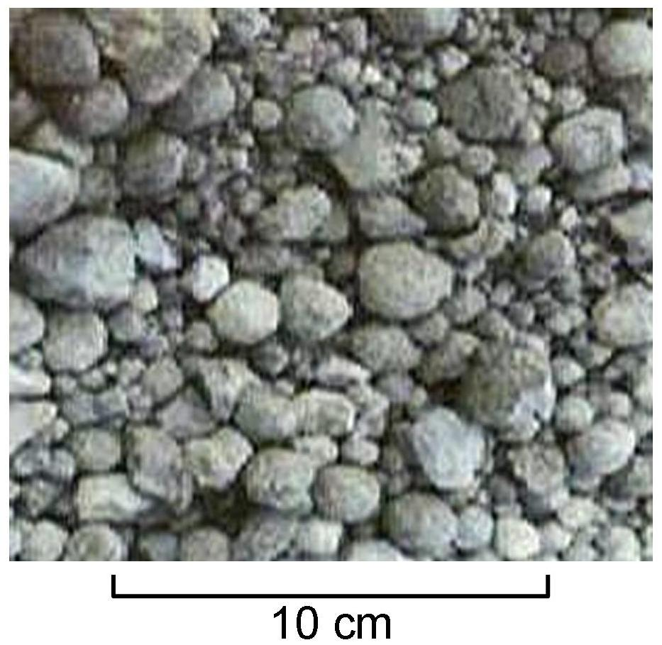 Picture showing the shape and size of nodules of Portland cement clinker.